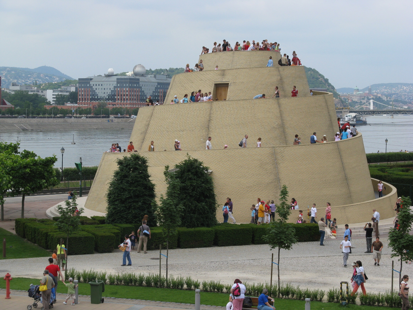 Ziggurat in Budapest, Hungary. A free look-out tower in front of the Palace of Arts, next to the National Theater, with an exhibition room inside.